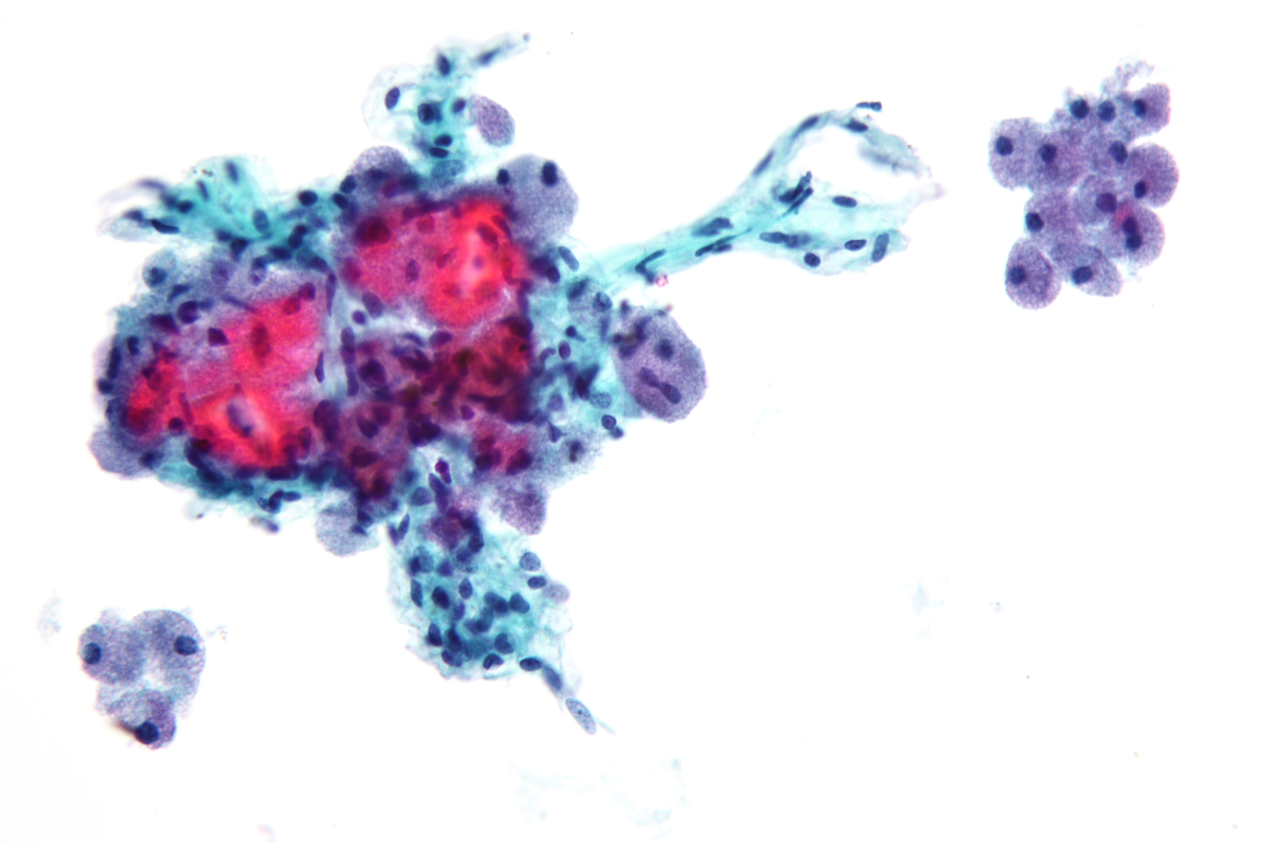 Micrograph of Hurthle cell neoplasm, also known as oncocytic neoplasm. Neoplastic oncocytes: 3-D clusters of cells. Abundant granular eosinophilic cytoplasm. Well defined cell borders. Nucleolus. Other features: Oncocyte clusters with transgressing vessels.